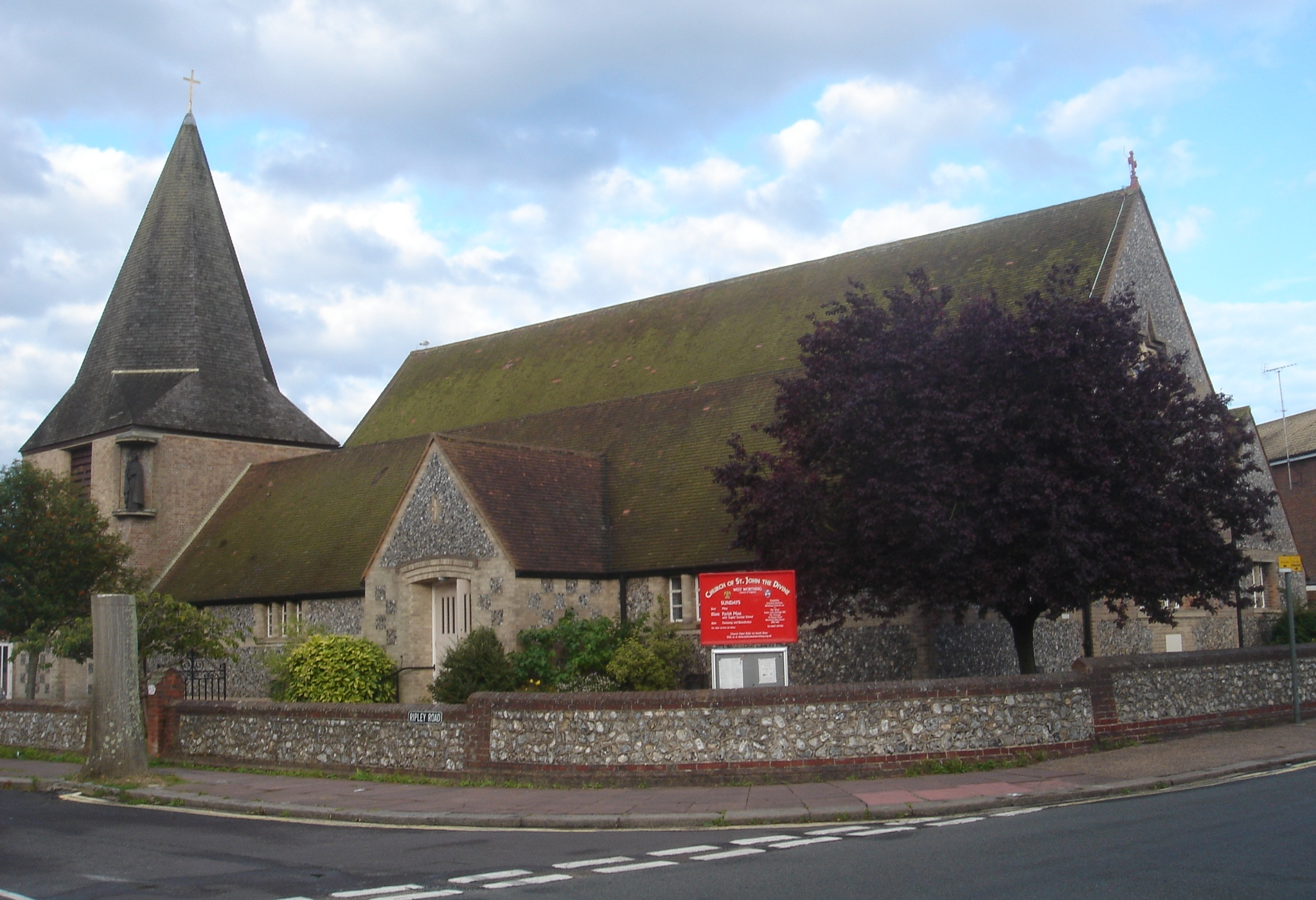 Parish church of St John the Divine, Ripley Road, Worthing, West Sussex, England, seen from the northwest. Designed by Nugent Cachemaille-Day. Opened in 1931 to replace a mission chapel, part of which was incorporated in the building. The tower and spire were added in 1966.